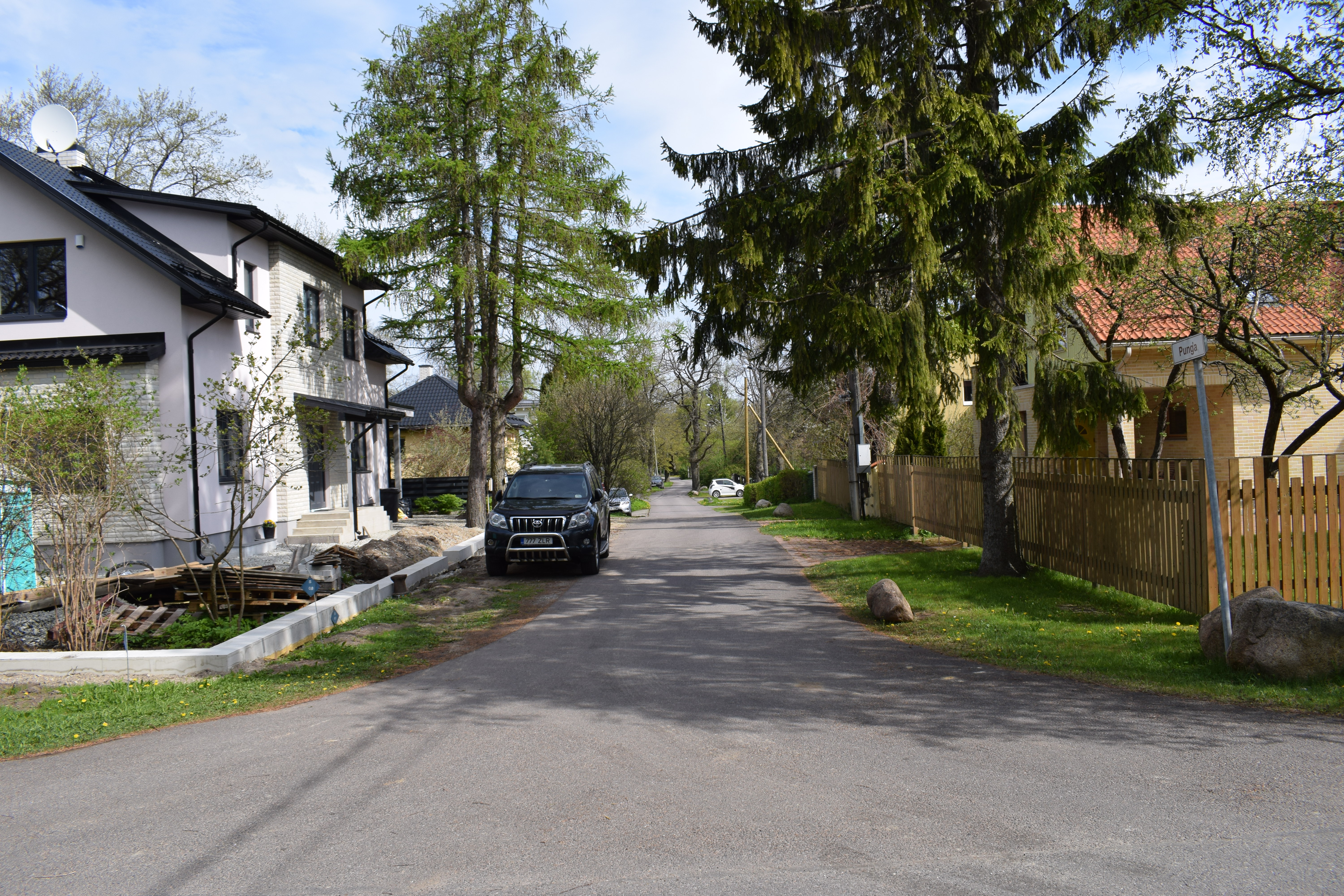 Punga tänav